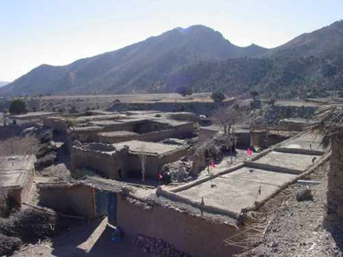 During a Sensitive Site Exploitation (SSE) mission in the Zawar Kili area of Afghanistan, U.S. Navy SEALs (Sea, Air, Land) discover a small village being used by Al Qaeda and Taliban forces. Photo by U.S. Navy